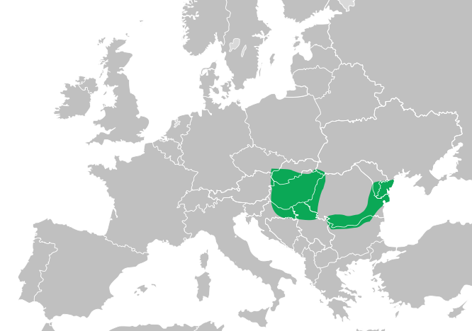 Distribution of Triturus dobrogicus (Danube crested newt), based on Jehle et al. 2011 ("The Crested Newt", Laurenti-Verlag, Bielefeld, ISBN 978-3-933066-44-2)